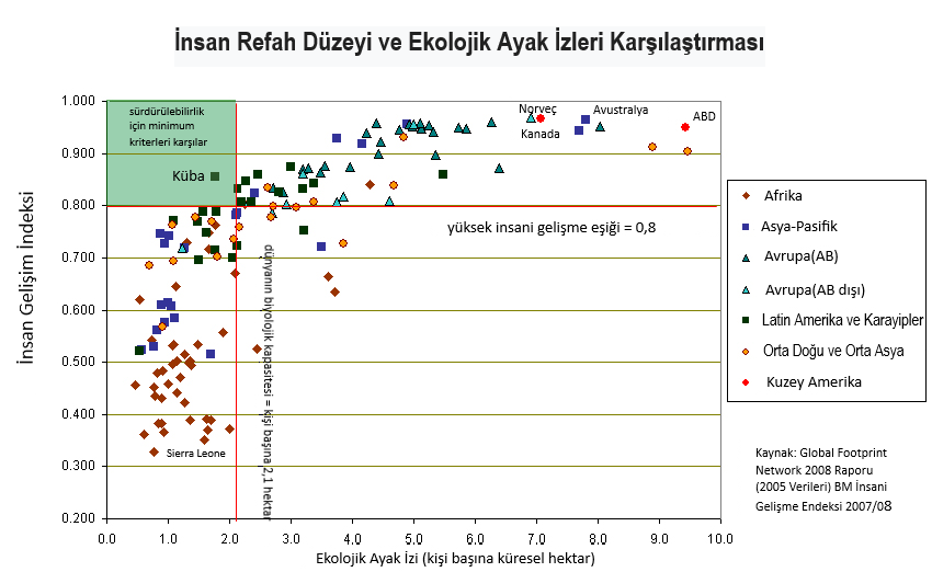 Turkish Translation of File:Human welfare and ecological footprint sustainability.jpg by Travelplanner